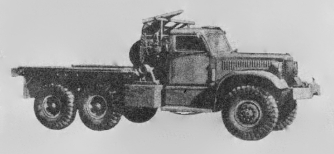 Diamond T 4-ton 6x6 self-loading flatbed truck